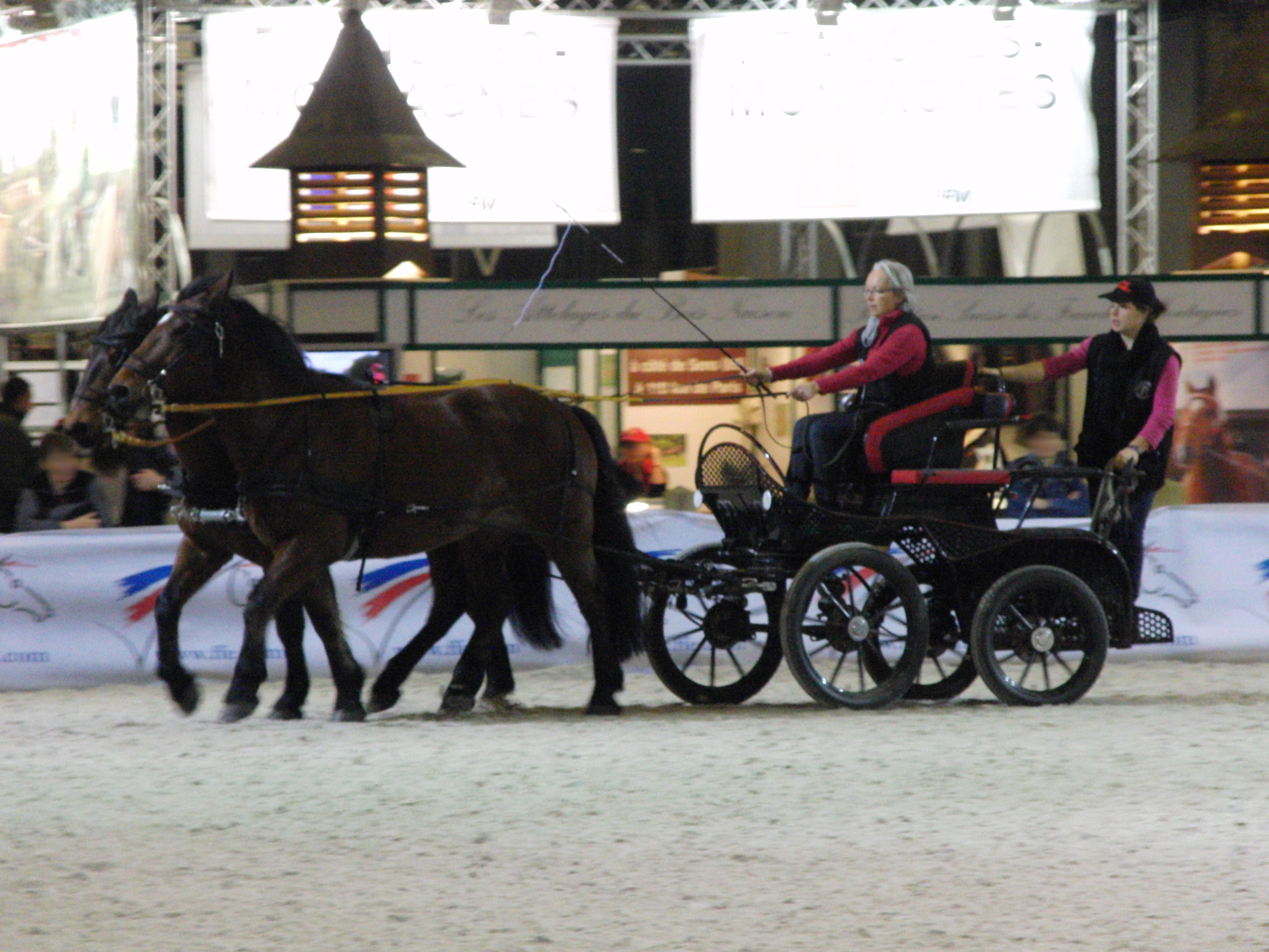 Castillonnais horses in harness in Paris, France